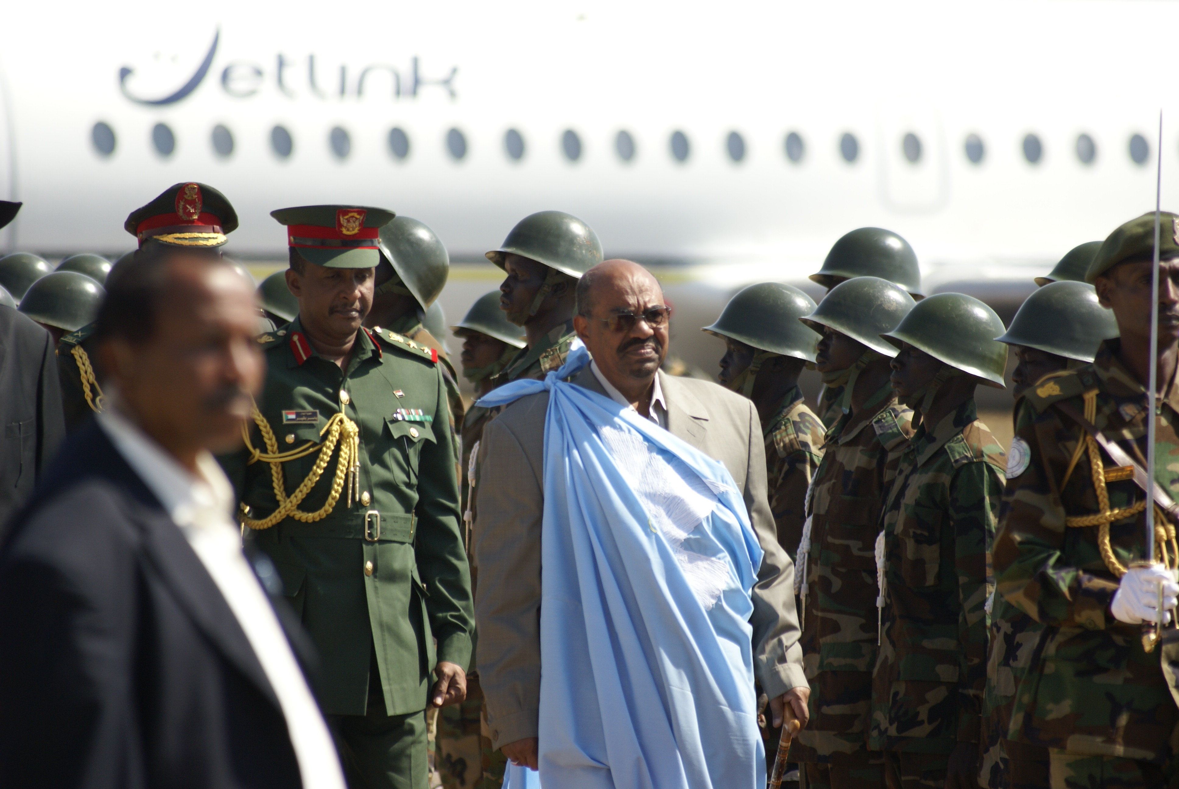 Sudanese president Omar al Bashir arrives in the southern capital of Juba.